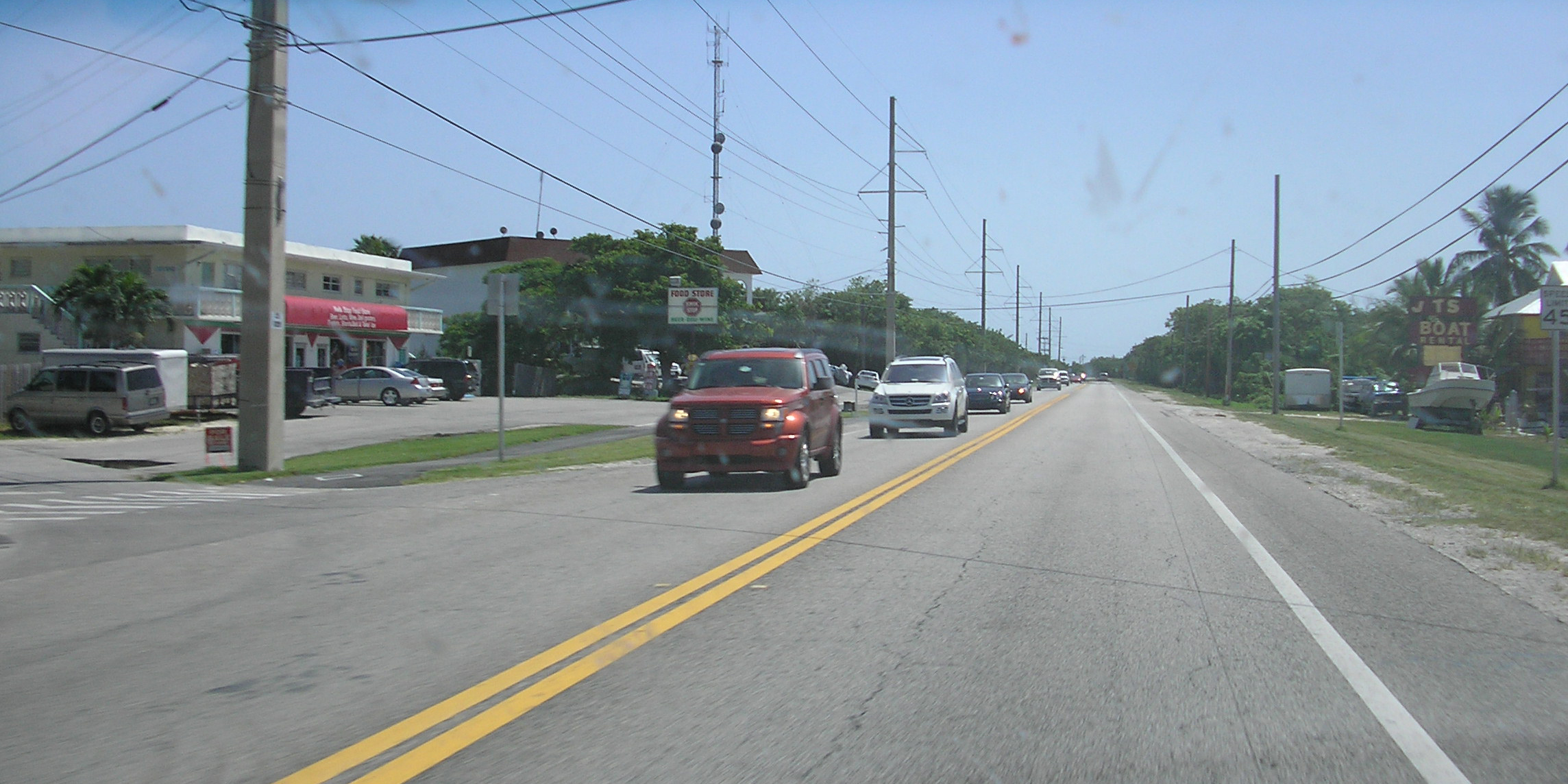 A picture taken in the middle of Layton, Florida, looking south along US-1.